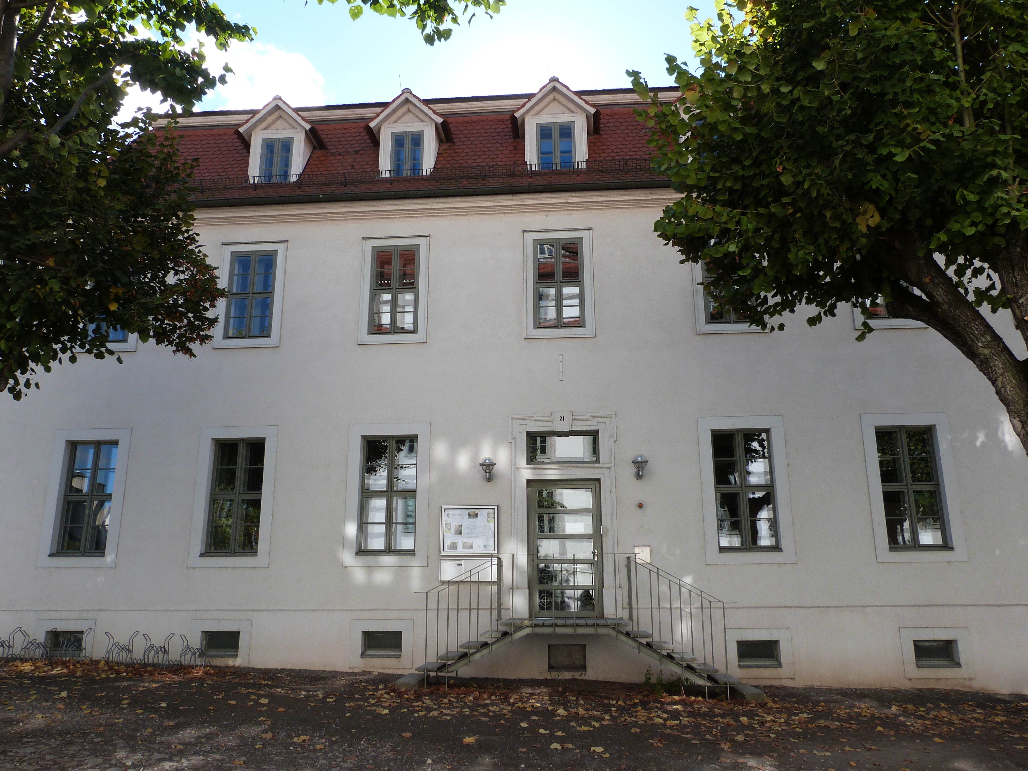 House No. 21, former Economy building of the Francke foundations in Halle (Saale), today domicile of the boys choir Stadtsingechor